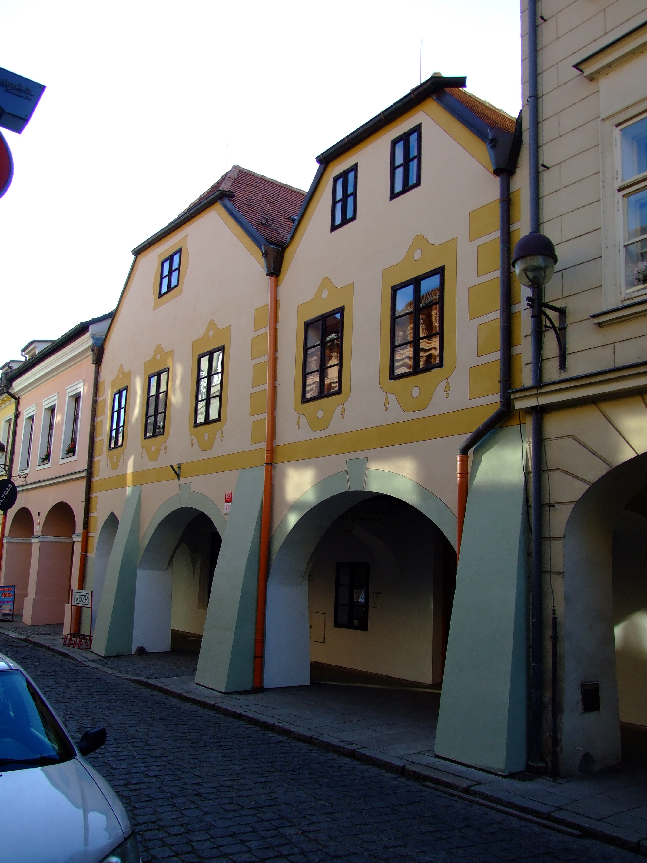 City center of České Budějovice